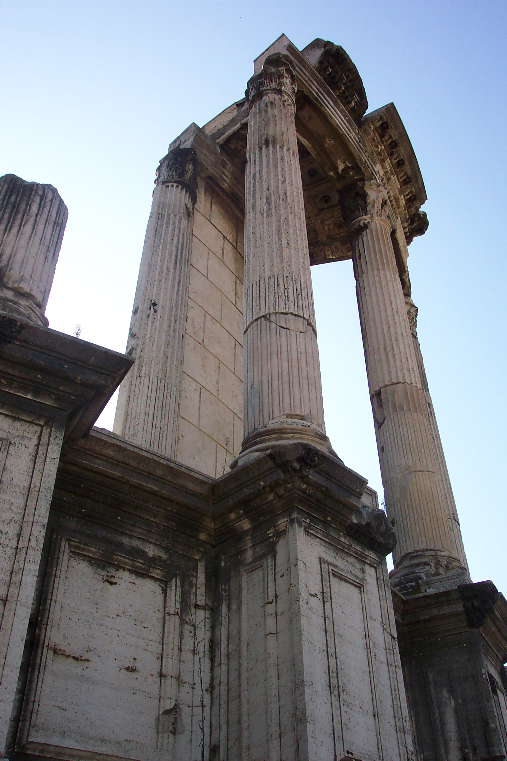 The remains of the Temple of Vesta in the Roman Forum.